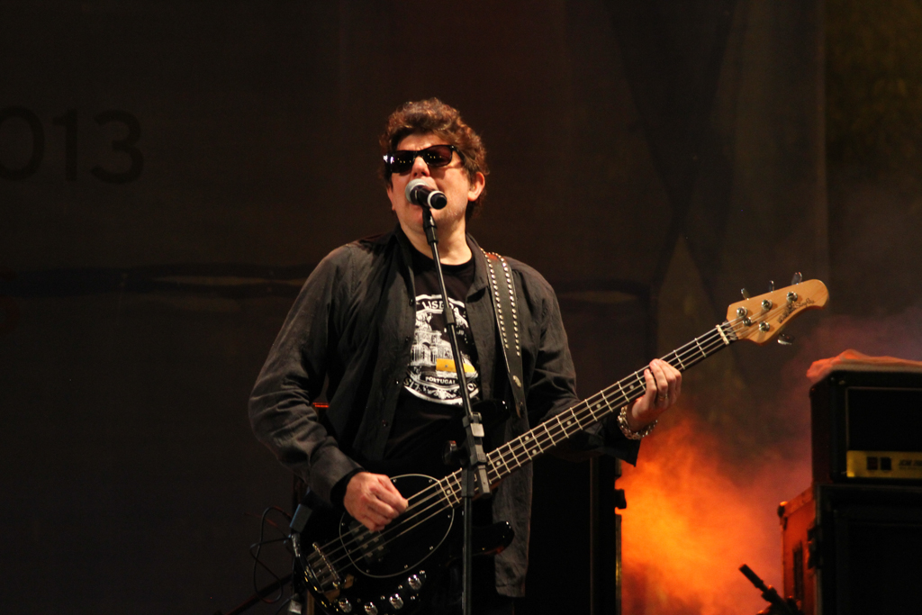 Branco Mello at the 2013 Virada Cultural Paulista in Barretos, São Paulo, Brazil.